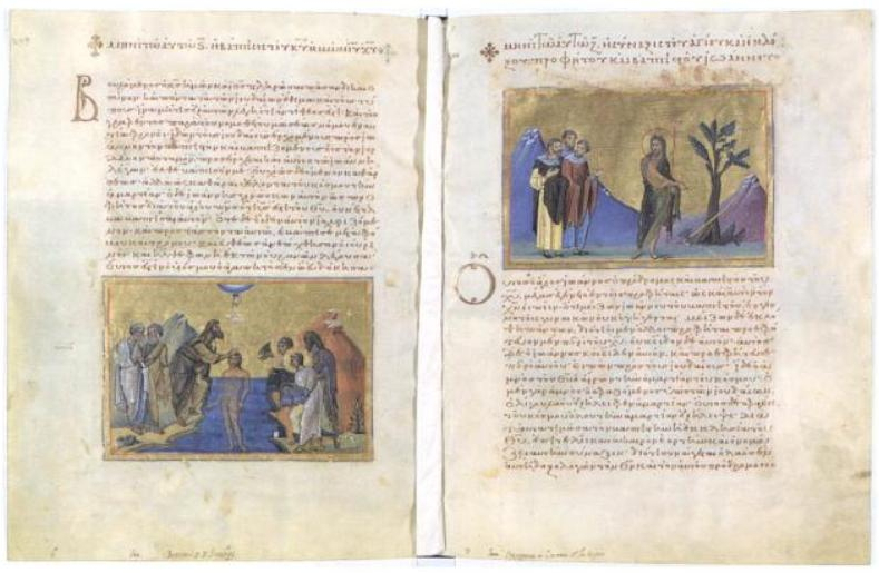 Menologion of Basil II